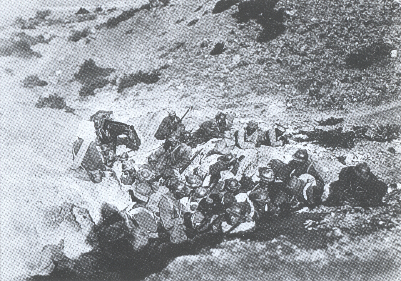 A platoon of the Greek 2nd battalion/12th Regiment (3rd Division), awaits in cover the order for attack, in the area of Toydemir.